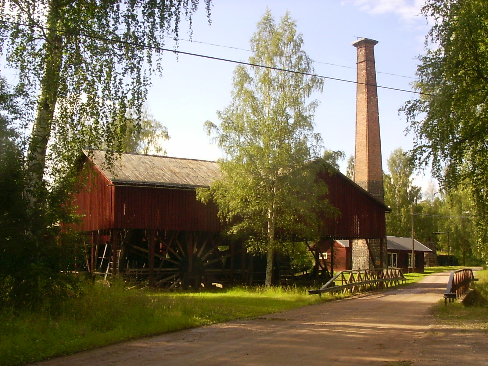 Korså bruk